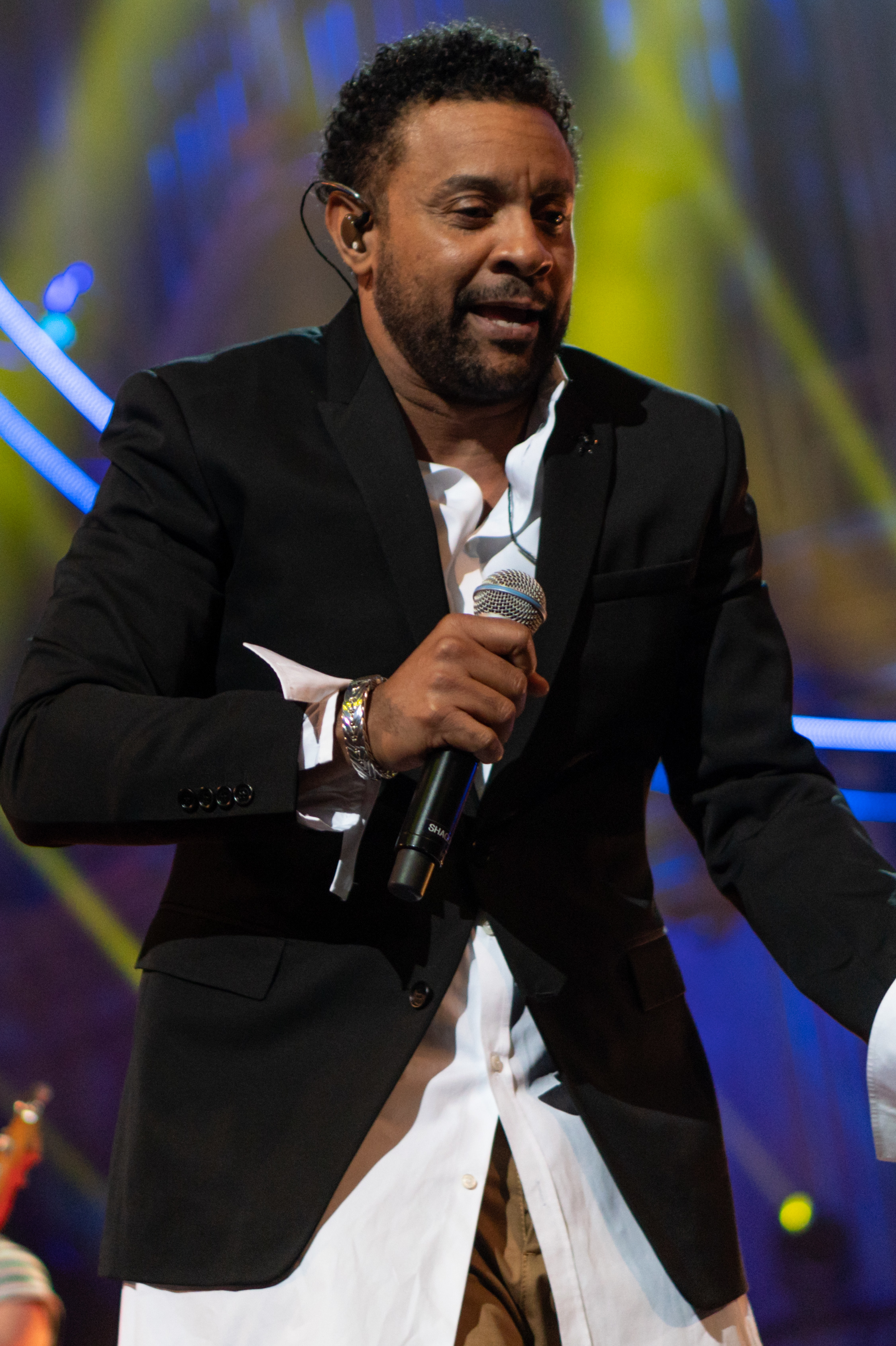 Shaggy at The Queen's Birthday Party